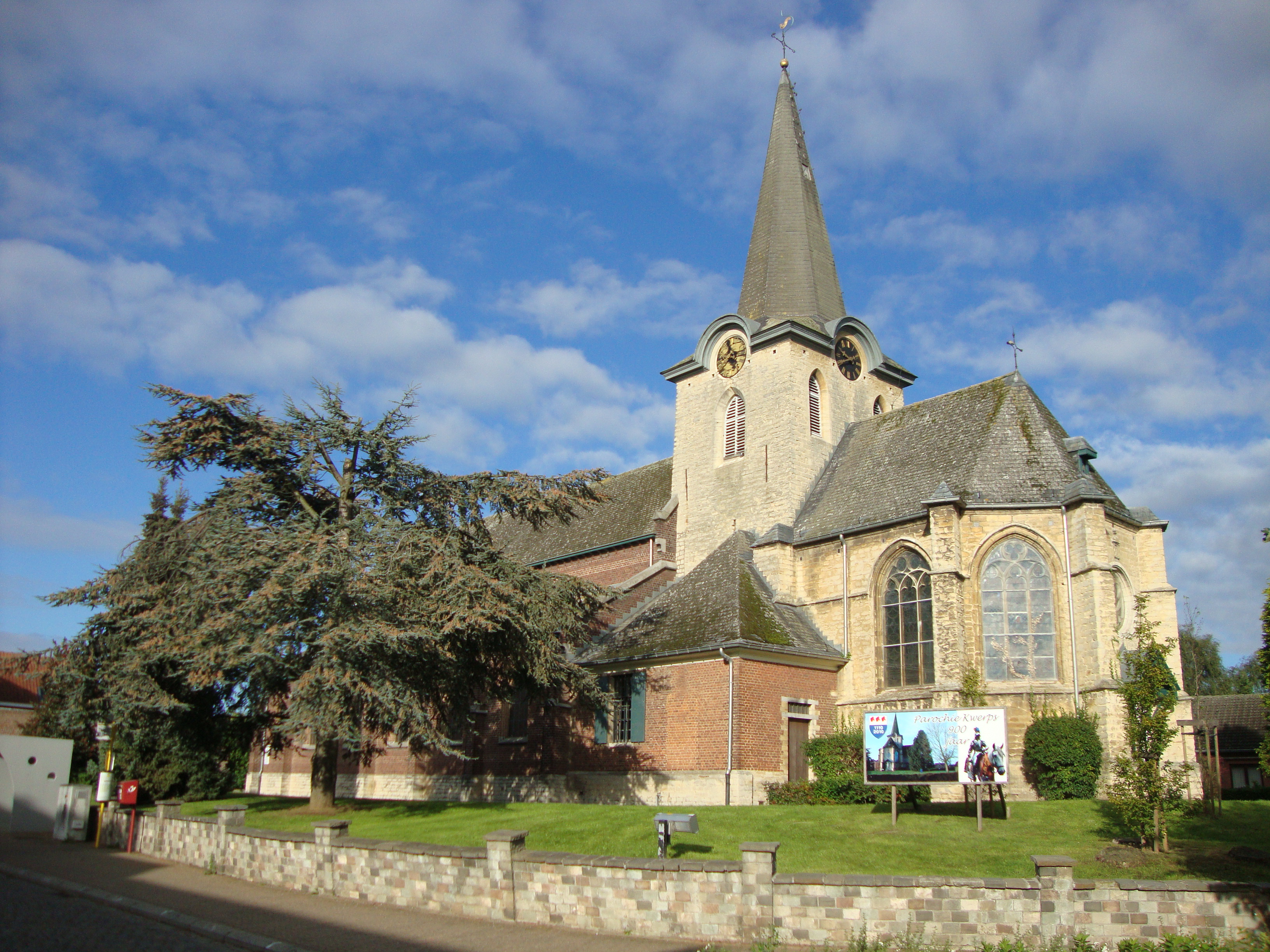 Parish church with parts from 16th and 19th centuries, Erps-Kwerps